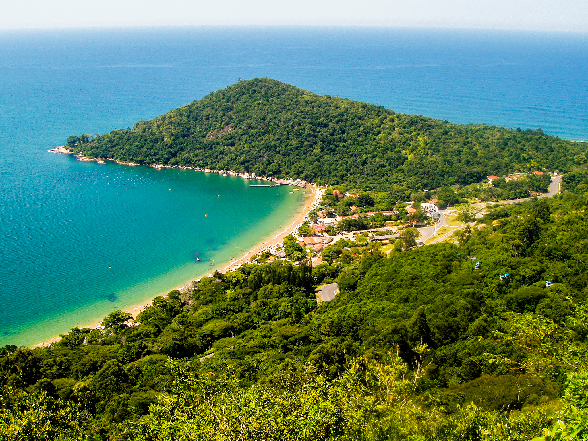 Vista da Praia de Laranjeiras e da Mata Atlântica, foto tirada do bonde aéreo.